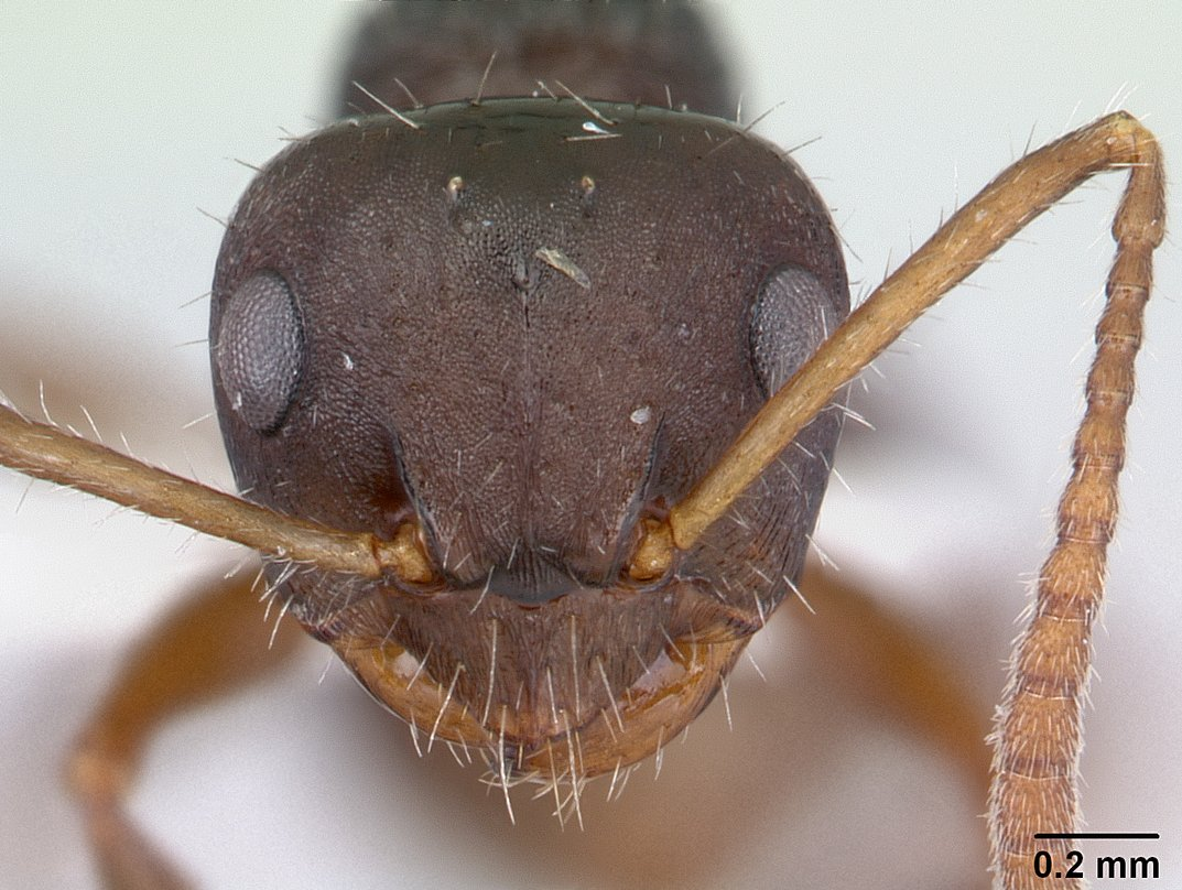 Head view of ant Pseudonotoncus hirsutus specimen casent0178517.